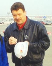 I met Robert early Sunday morning raceday as he was heading to the garage area from the motor coach parking lot. Taken at the 1999 California 500.